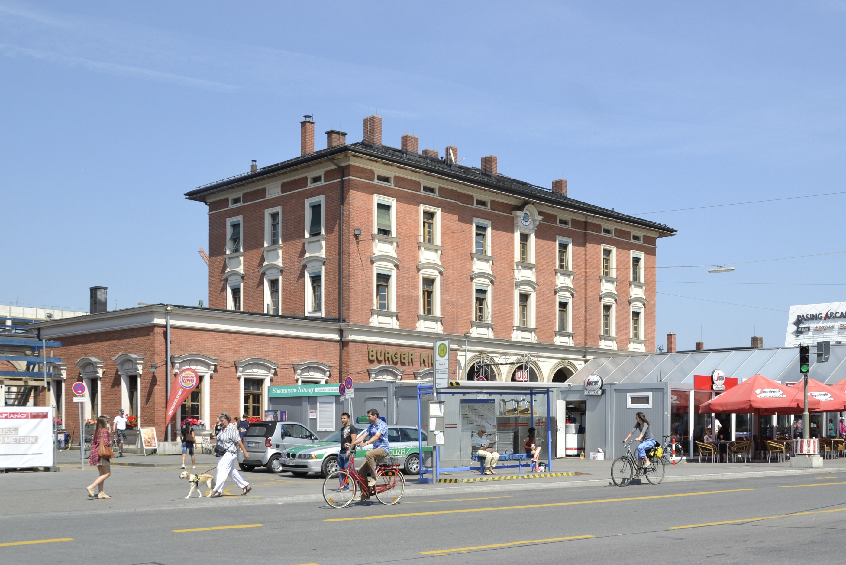 The train station in Munich-Pasing in 2012.